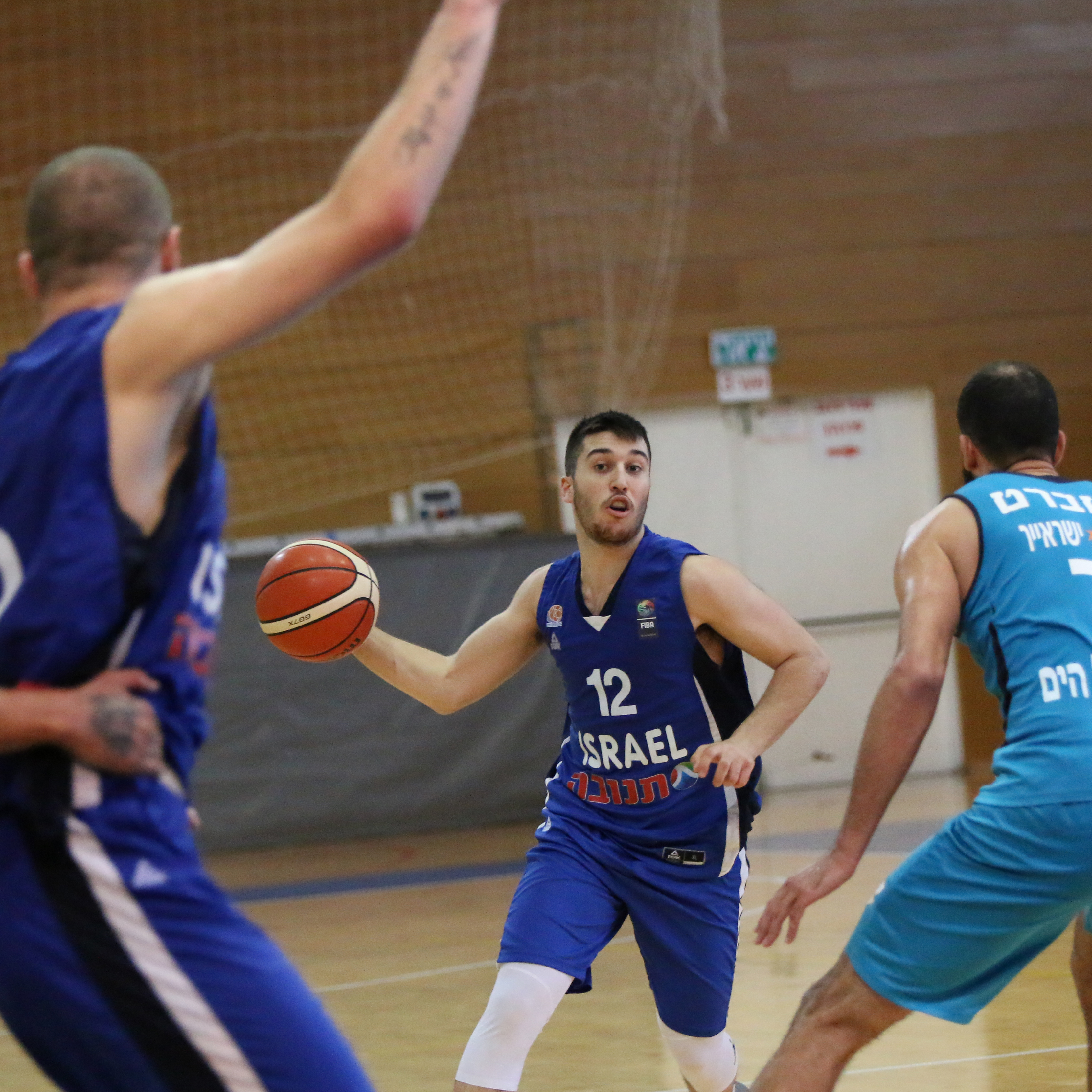 Tamir Blatt 2017